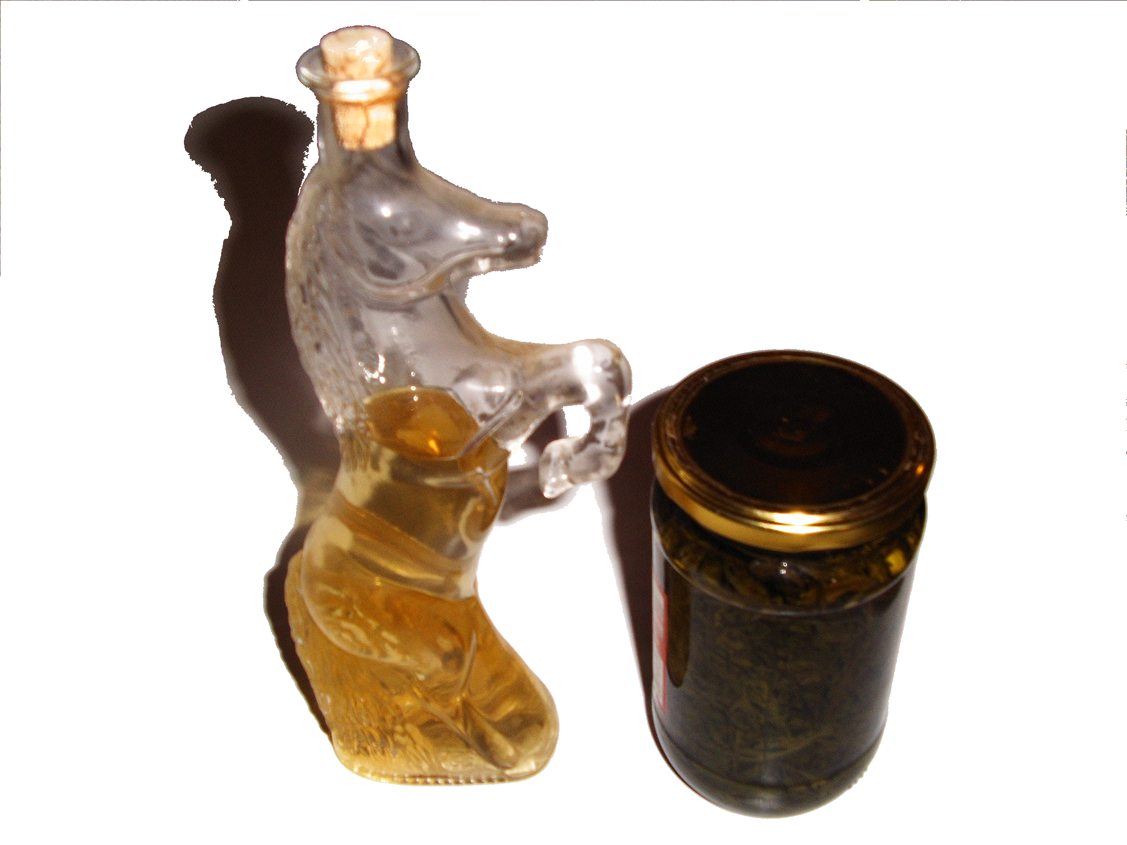 pelinkovac